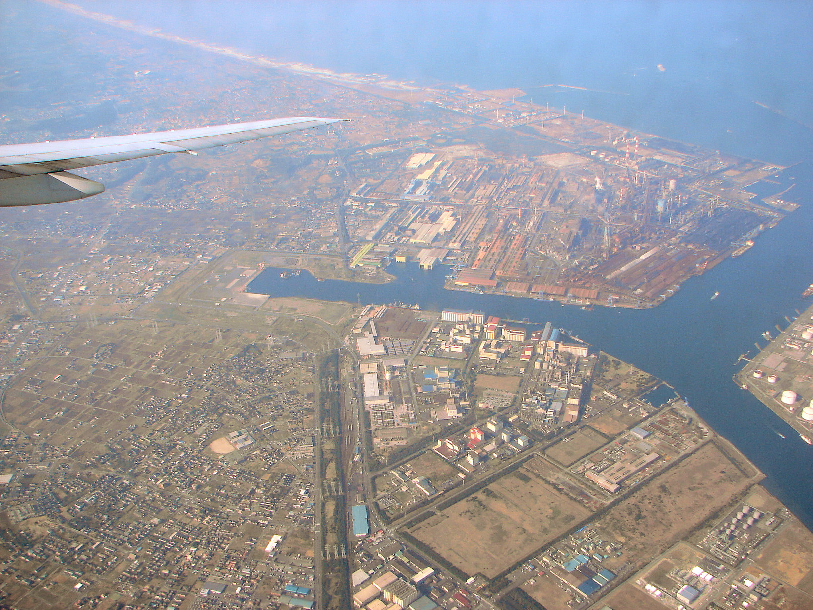 Aerial view of Kamisu, Ibaraki, Japan